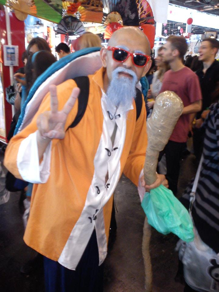 kame sennin muten roshi